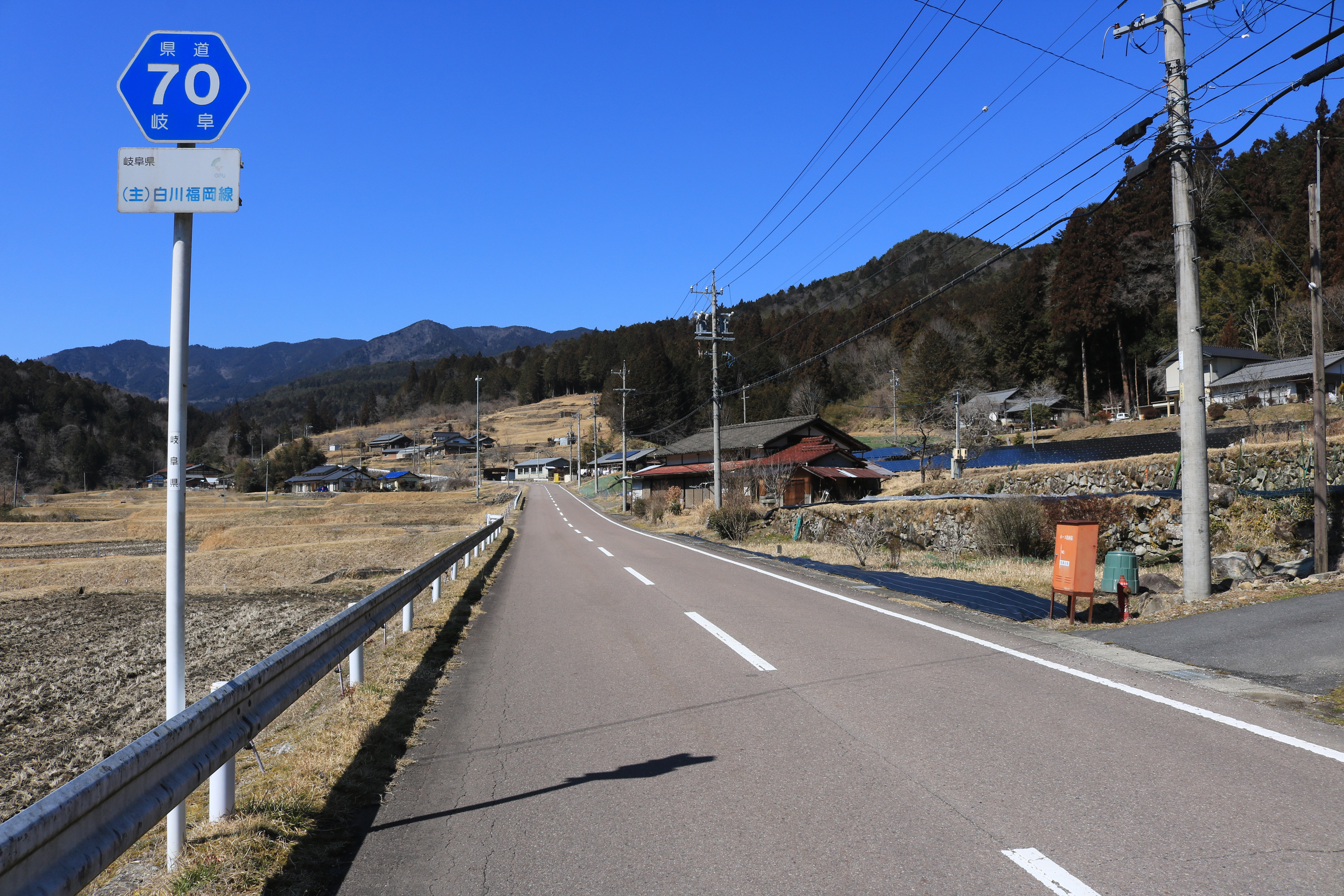 Gifu Prefectural Road Route 70 in Fukuoka, Nakatsugawa, Gifu Prefecture, Japan.